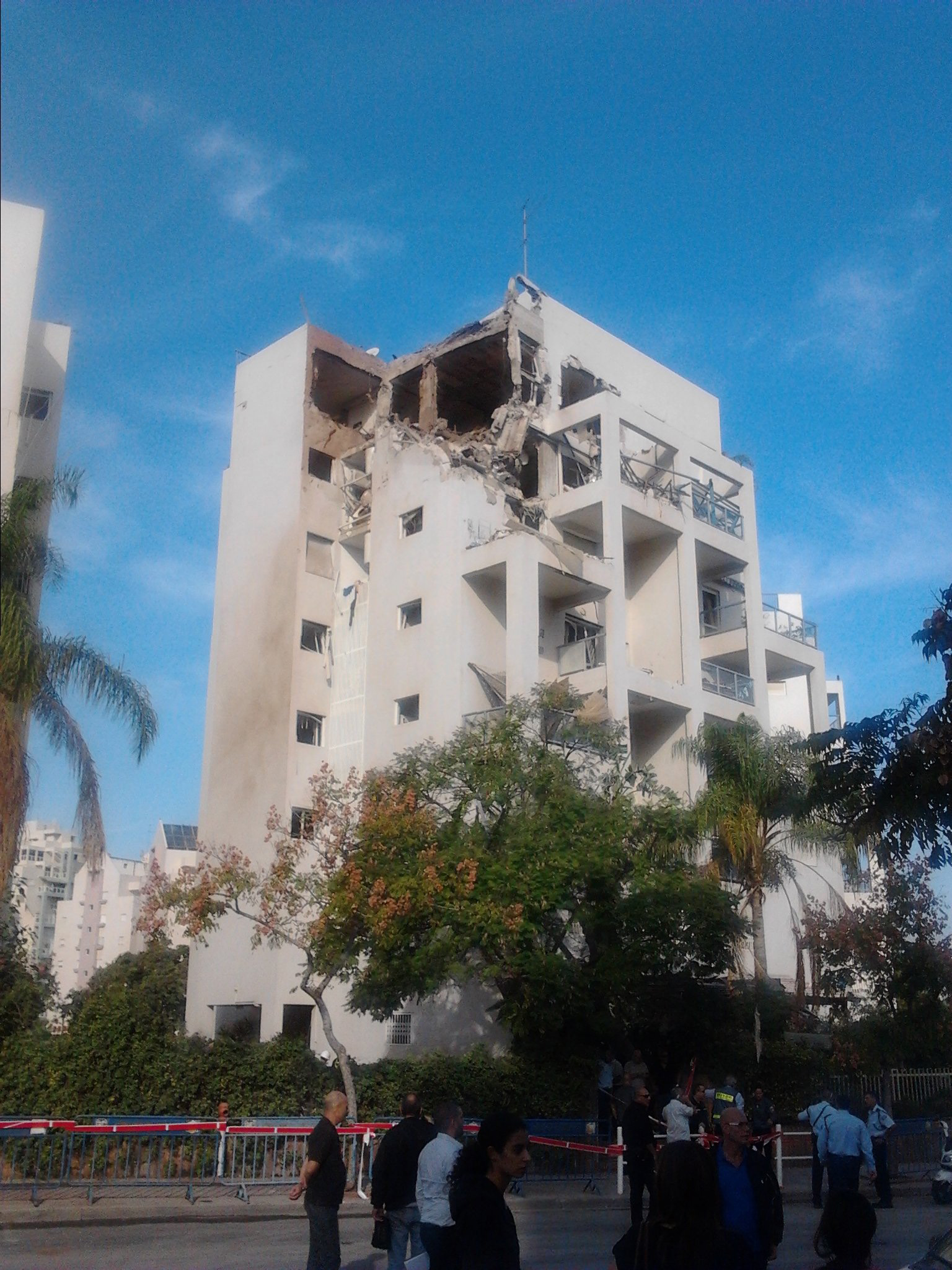 Building in Rishon le Zion hit by Hamas rocket in November 2012